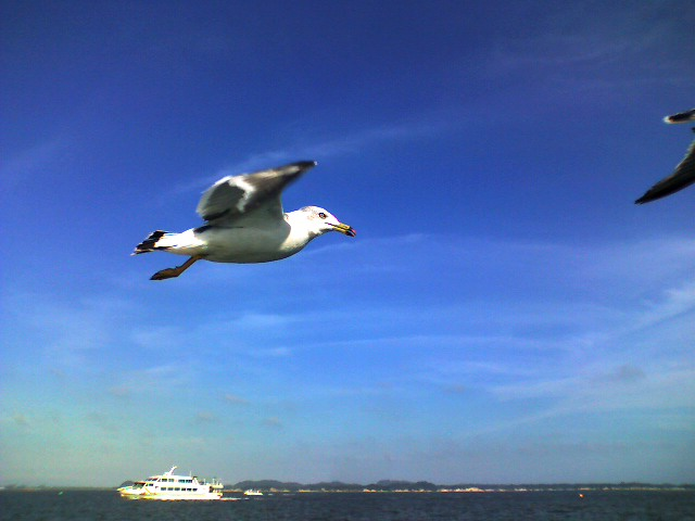 Black-tailed Gulls at Matsushima,Miyazaki,Japan.from sight-seeing ship.